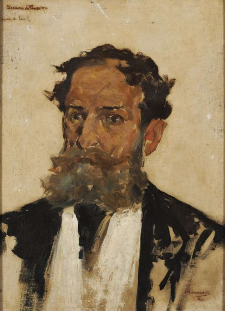 Painting of Deodoro da Fonseca, by Henrique Bernardelli